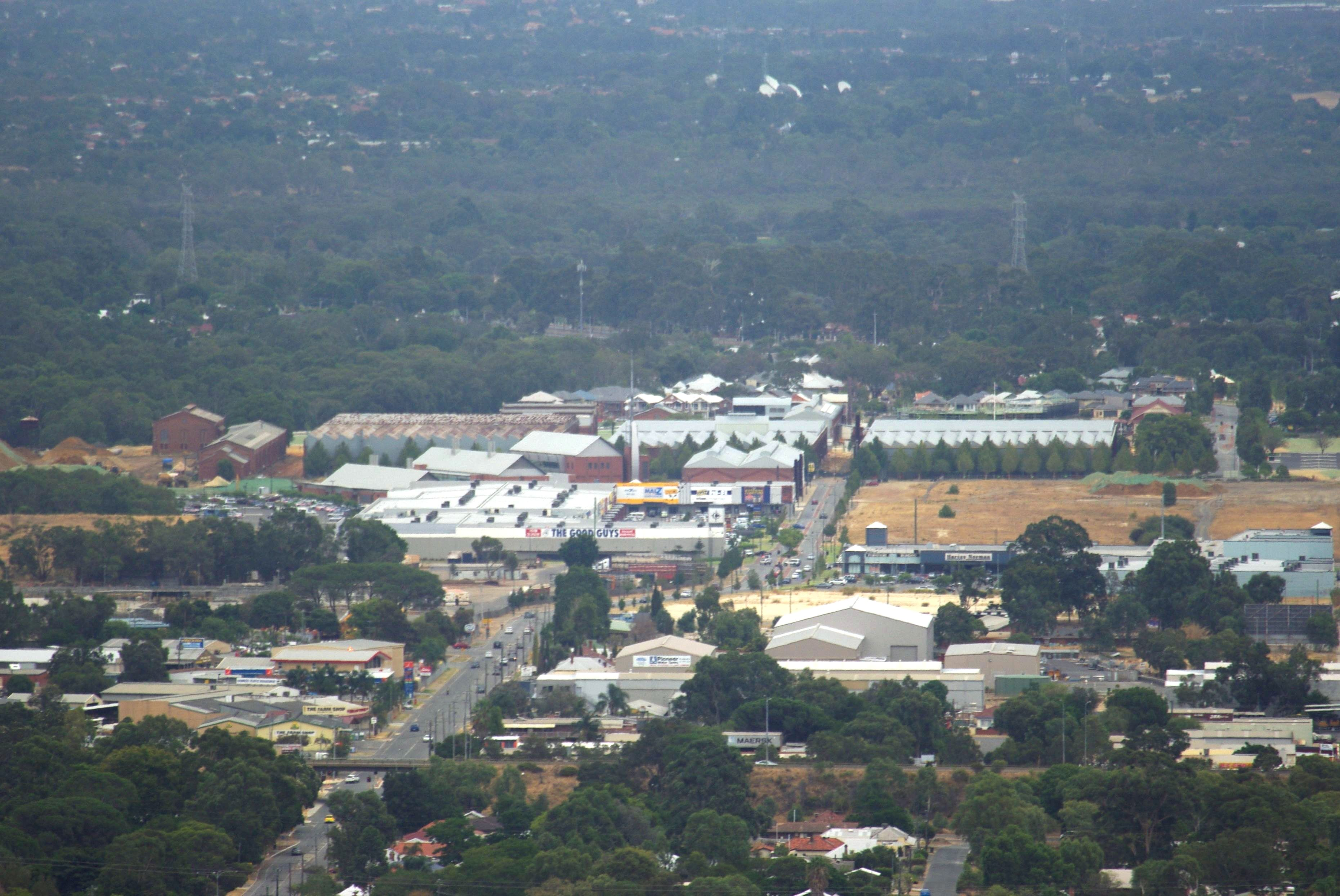 Remaining buildings from the former Midland Railway Workshops in mid-view. vegetation above the buildings is of Woodbridge (formerly West Midland) and in part of the Swan River area further in the upper part of the photograph. Road visible on left is Clayton Street which runs from Bellevue to the old Workshops